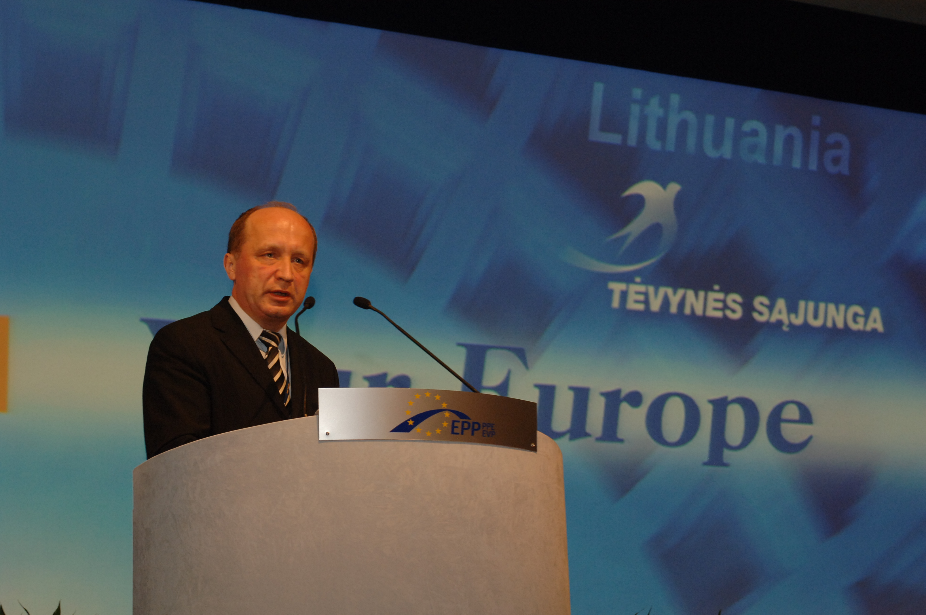 EPP Congress Rome 2006